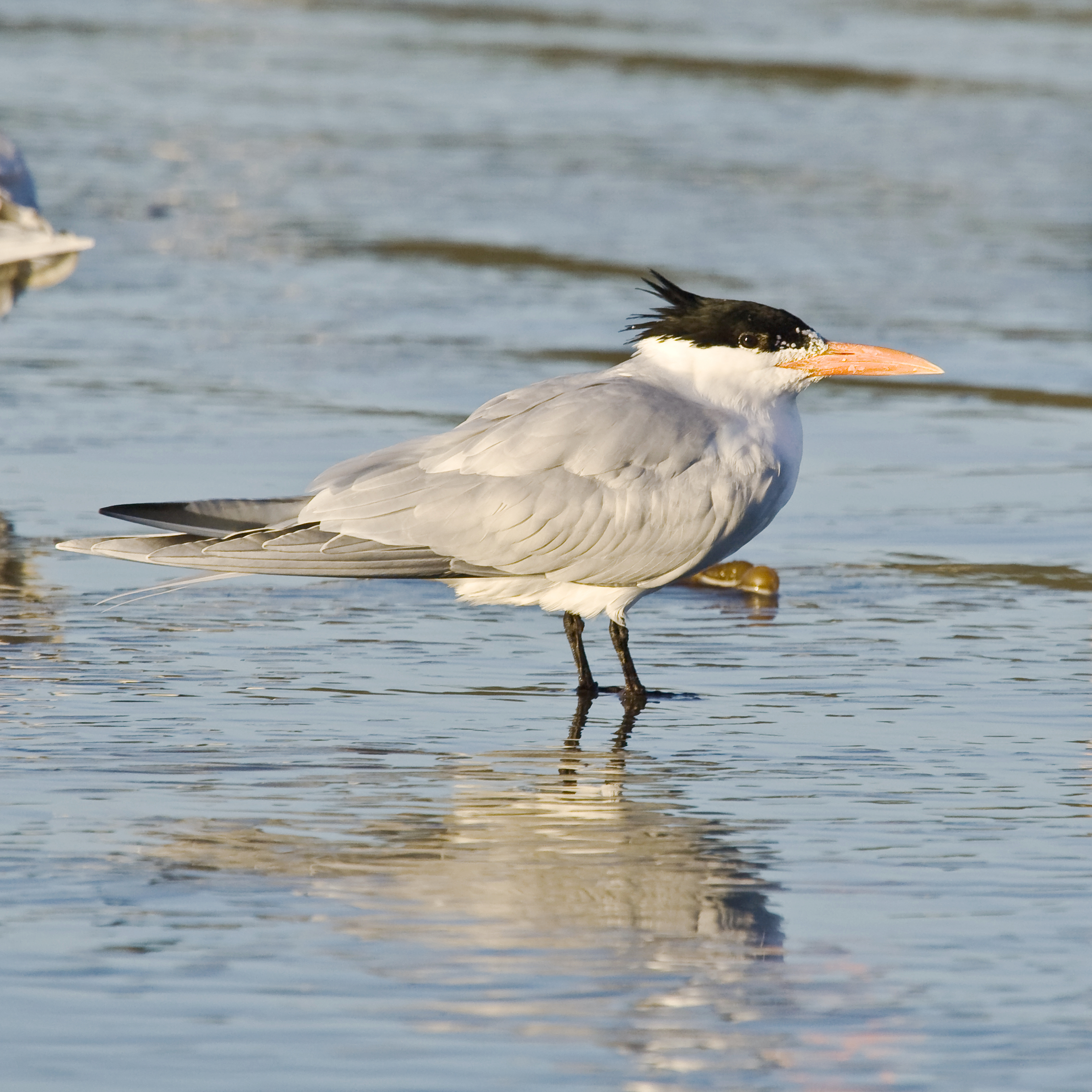 Royal Tern (Thalasseus maximus syn. Sterna maxima), Morro Strand State Beach, Morro Bay, CA, 05 feb 2008 05feb2008 - Photo by Michael "Mike" L. Baird Canon 1D Mark III w/ 300 f/2.8 IS lens with 1.4X II TE handheld.